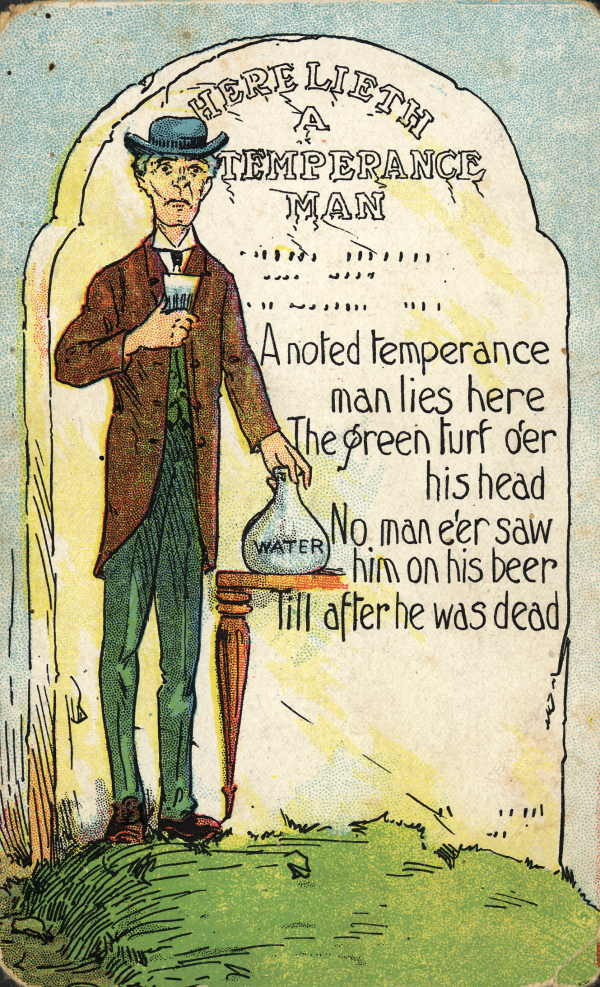 Cartoon showing a mourner in front of a gravestone which has the inscription, "Here lieth a temperance man. A noted temperance man lies here / The green turf o’er his head / No man e’er saw him on his beer / Till after he was dead". [Pun with "beer" / "bier"]